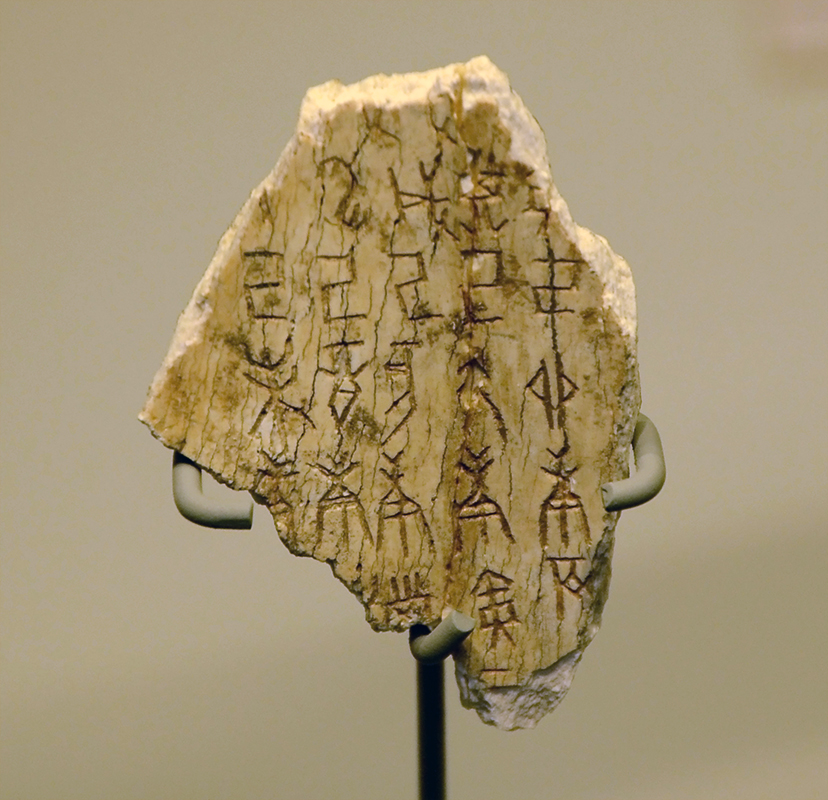 Piece of a Chinese oracle bone (ox bone), from Anyang (Henan, China), Shang Dynasty, 1200 BC. Now in the Musée de Mariemont. Inscription (fragment of a table of the sexagenary cycle): ...己卯庚辰 子己丑庚寅 戌己亥庚子 申己酉庚... ...己未庚...